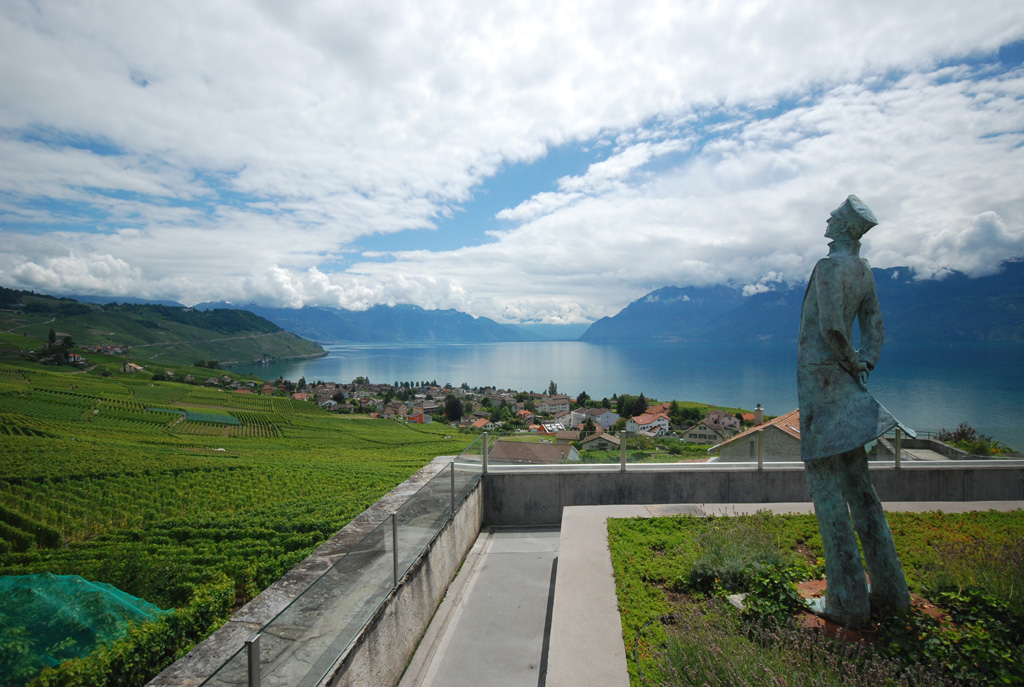 Corto Maltese statue in Grandvaux, Switzerland. The statue by Luc and Livio Benedetti was inaugurated the 24 October 2007. Grandvaux was the home of comics author Hugo Pratt from 1984 until his death in 1995, and he is laid to rest in the town. Corto and the photo is facing south-east, towards the Alps, on the other side of Lake of Geneva.